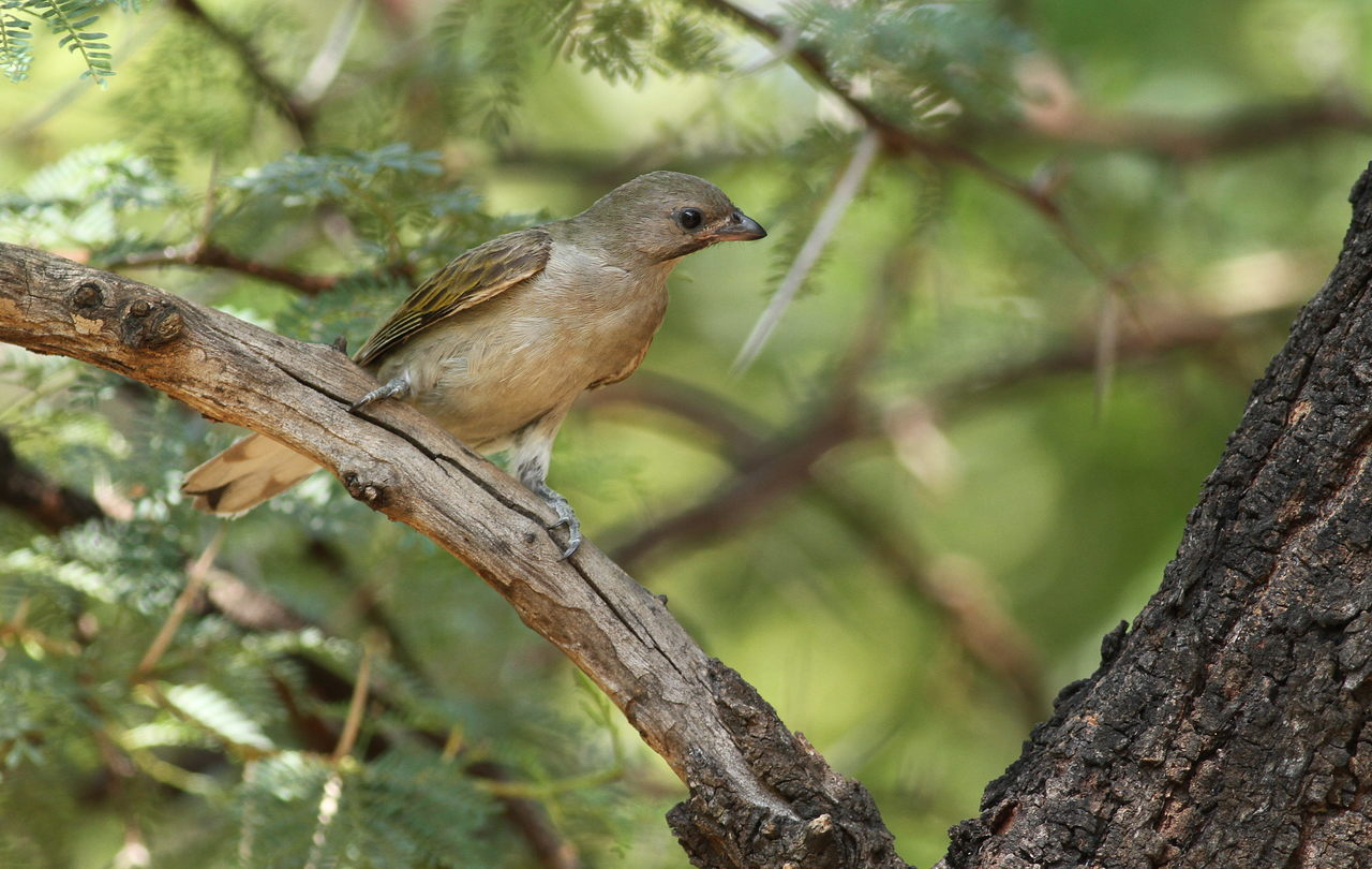 Lesser honeyguide, Indicator minor, at Pilanesberg National Park, South Africa